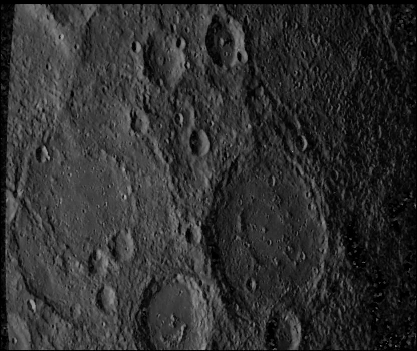 Image Number: 0027389GMT: 1974:264:21:04:16Start Time: 1974-09-21T21:04:16.425ZLatitude: -88.11° to -72.07°Longitude: 106.65° to 153.35°Resolution (meters per pixel): 435Incidence Angle: 80.89°Emission Angle: 41.96°Phase Angle: 39.12°Cervantes basin at left, Bernini at right, and Van Gogh at bottom center.